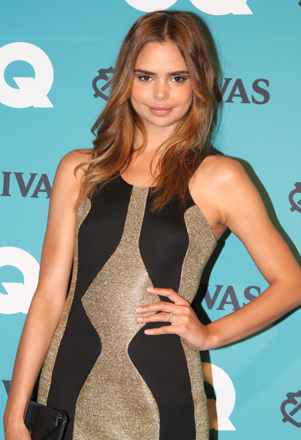 Samantha Harris